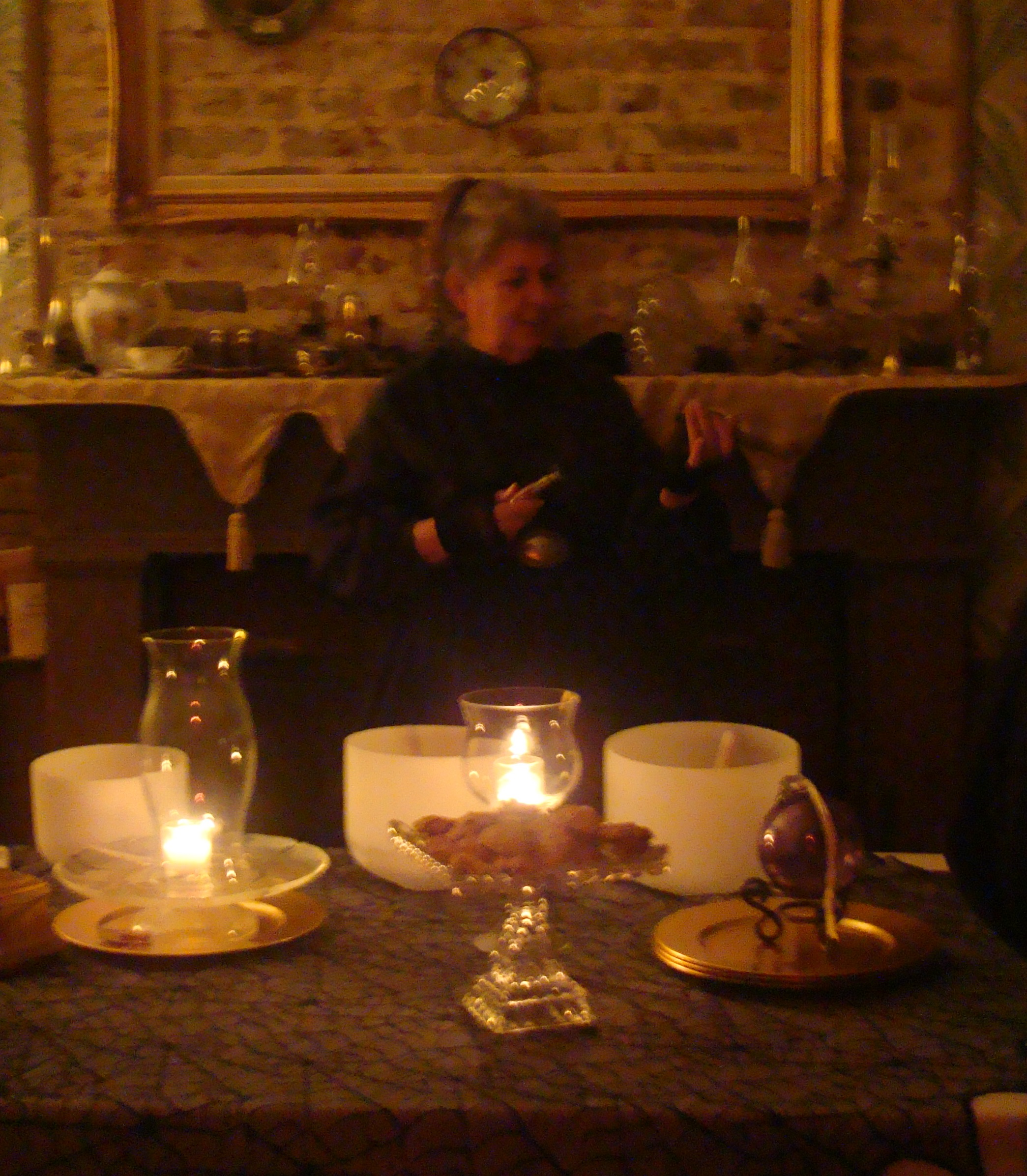 Belinda Nash in period costume for Ferry Plantation House's annual Halloween Stroll of Lost Souls, Virginia Beach, Virginia, USA.